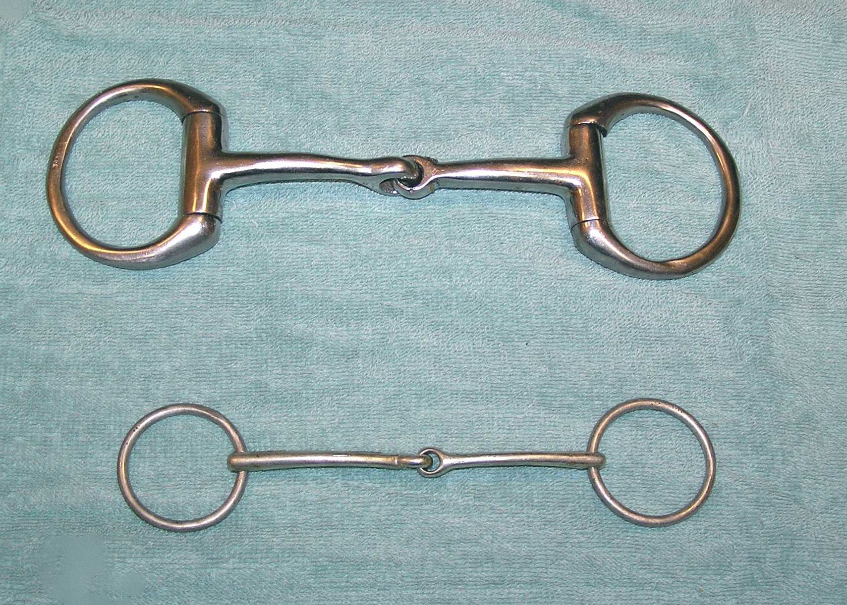 Contrast between a standard snaffle bit and a bradoon. Both are five inch wide mouthpiece for an average-sized horse